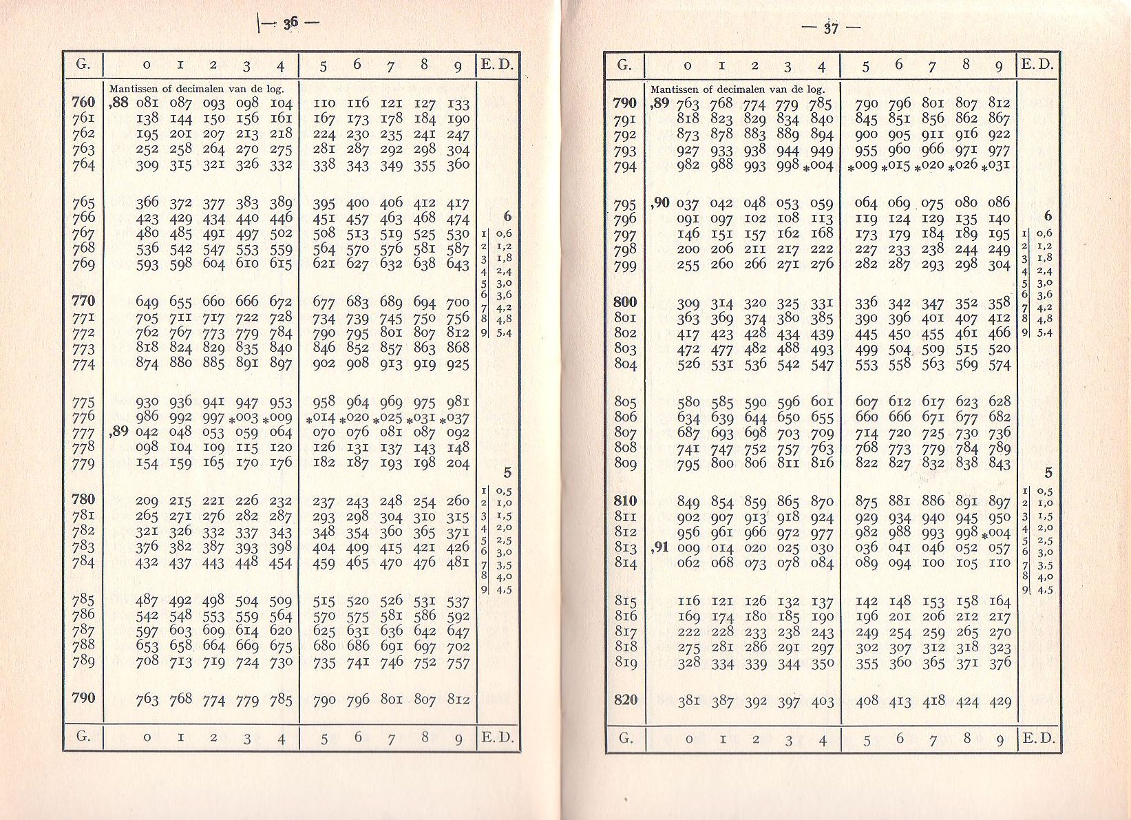 Sample page from logarithm table